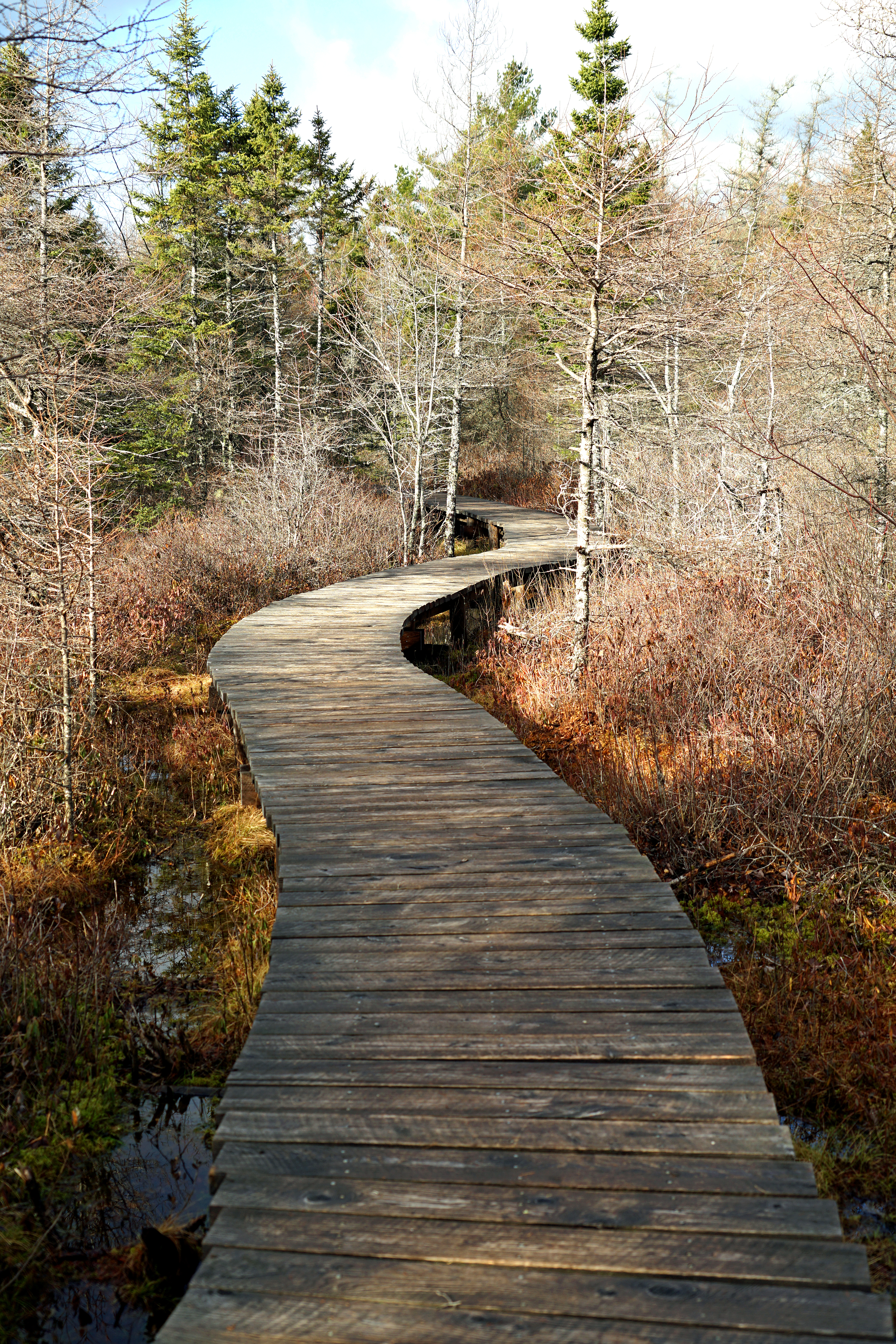 PLEASE, NO invitations or self promotions, THEY WILL BE DELETED. My photos are FREE to use, just give me credit and it would be nice if you let me know, thanks. These trails are not all in this shape, just at the start. The Bluff Wilderness Hiking Trail is located on Crown Land just west of Halifax, Nova Scotia. It begins inside the Woodens River watershed and climbs onto the high ground (“The Bluff” ). The trailhead is located on the Beechville-Lakeside-Timberlea (BLT) trail at a point midway between the Hwy 103 overpass just south of Exit 4 and the northern tip of Cranberry Lake. The signs at the trailhead emphasize that this trail is for experienced hikers; they warn hikers of some of the potential dangers of wilderness hiking. Hikers should be alert since they will be traveling through bear and moose country. There are also coyotes. The trail is a wilderness trail, designed to challenge and delight the experienced hiker. Hikers should use caution at all times.